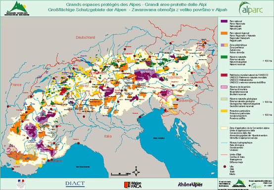 ALPARC map